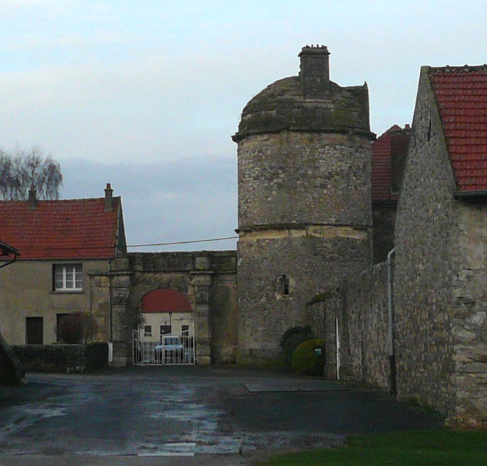 Portal and tower of the Castle's farm in Trocy-en-Multien, Seine-et-Marne, Île-de-France, FRANCE